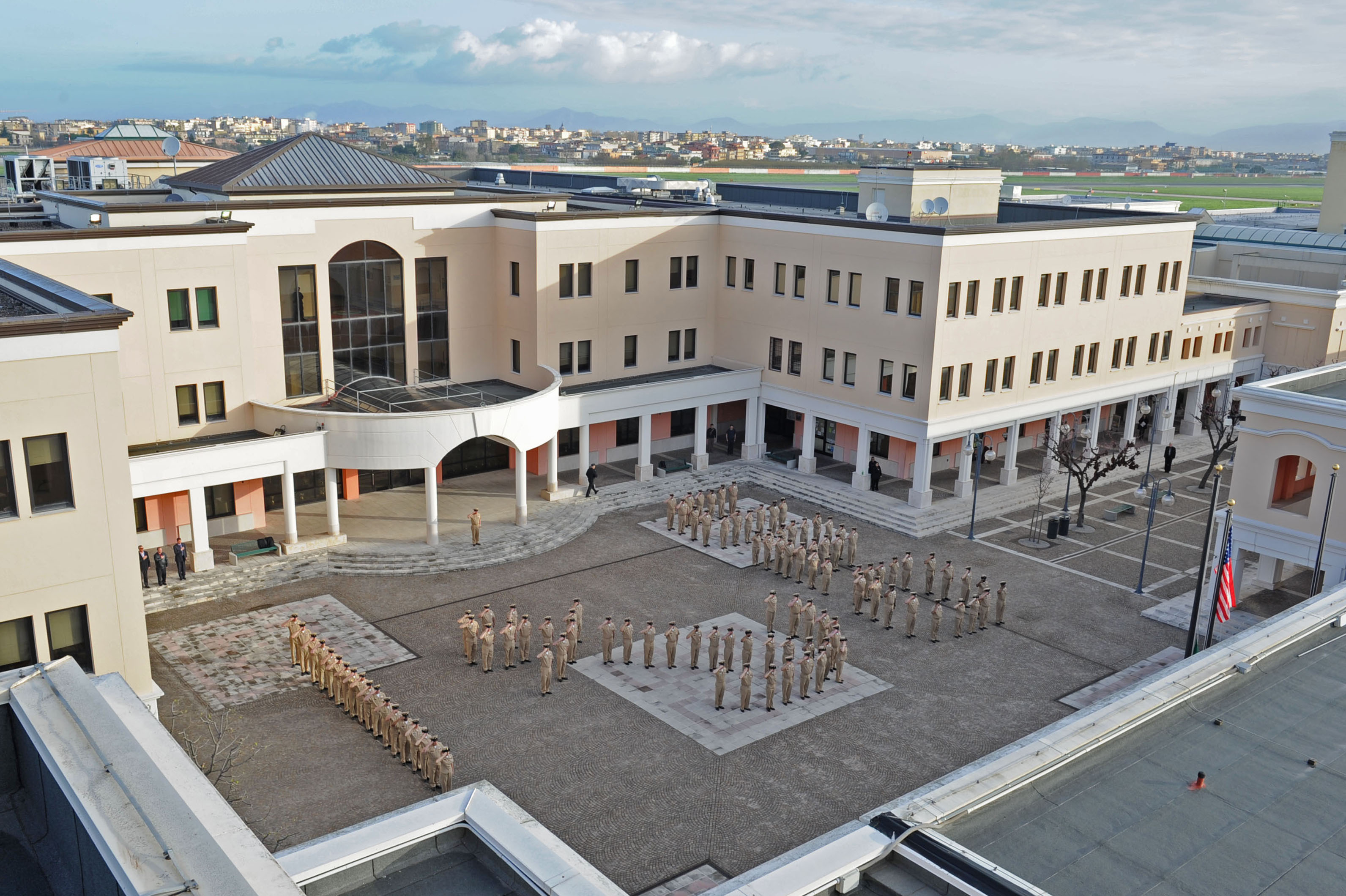 130401-N-AW206-135 NAPLES, Italy (April 1, 2013) Chief petty officers celebrate the birthday of the chief petty officer during morning colors at Naval Support Activity Naples. The celebration is to acknowledge past and present chief petty officers honoring 120 years of the chief petty officer rank. Some sailors form an anchor, and some the abbreviation CPO (Chief petty officer)